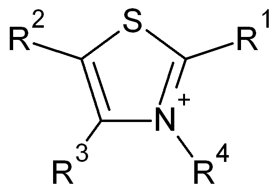 Thiazolium cation